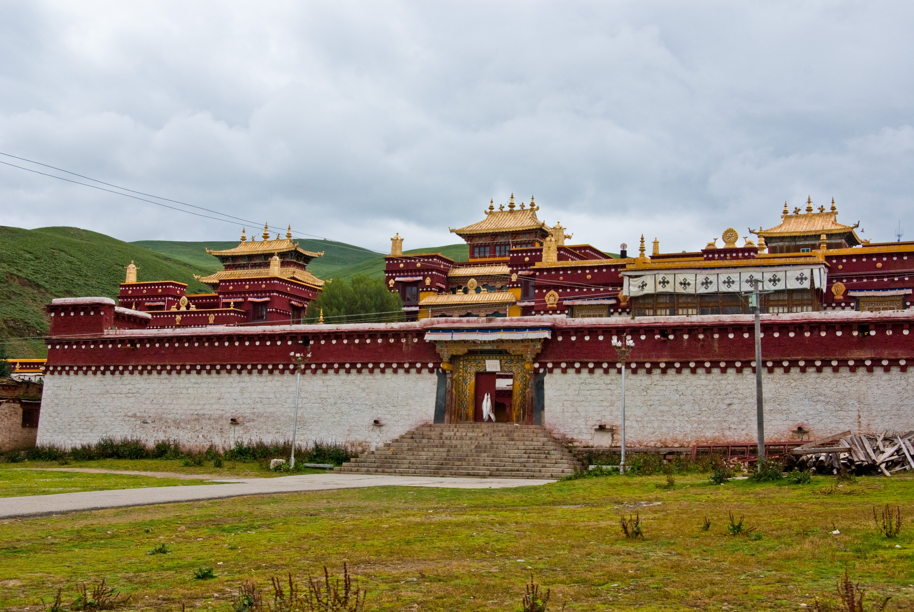 Litang Monastery